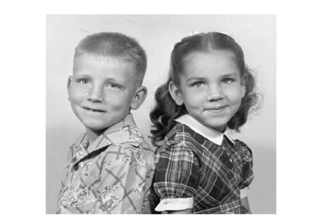 Doug with his sister Judy